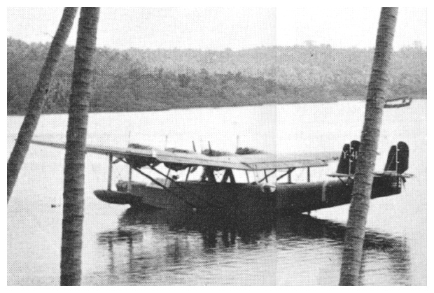 A Kawanishi H6K5 aircraft of the Imperial Japanese Navy's Yokohama Air Group (Yokohama Kokutai) somewhere in the Solomon Islands in 1942. Sometimes this photo is captioned as being taken at Tulagi/Gavutu-Tanambogo seaplane base but according to Kevin Denlay [1] this location is uncorrect.